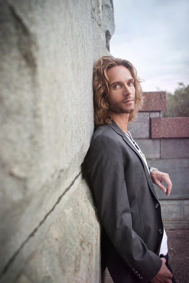 Tomas N'evergreen Sept. 2011